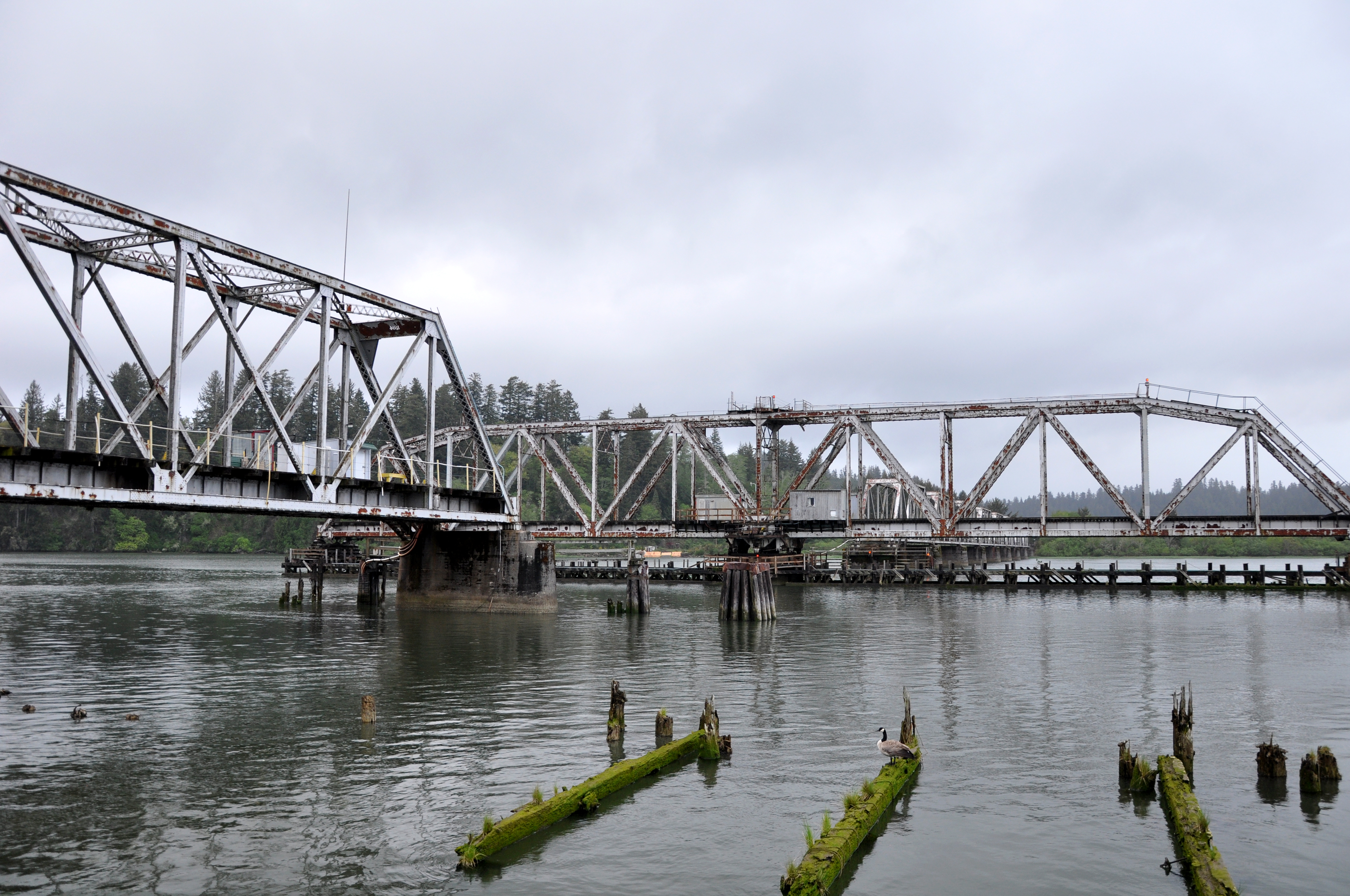 Railway bridge over the Umpqua River at Reedsport in the U.S. state of Oregon